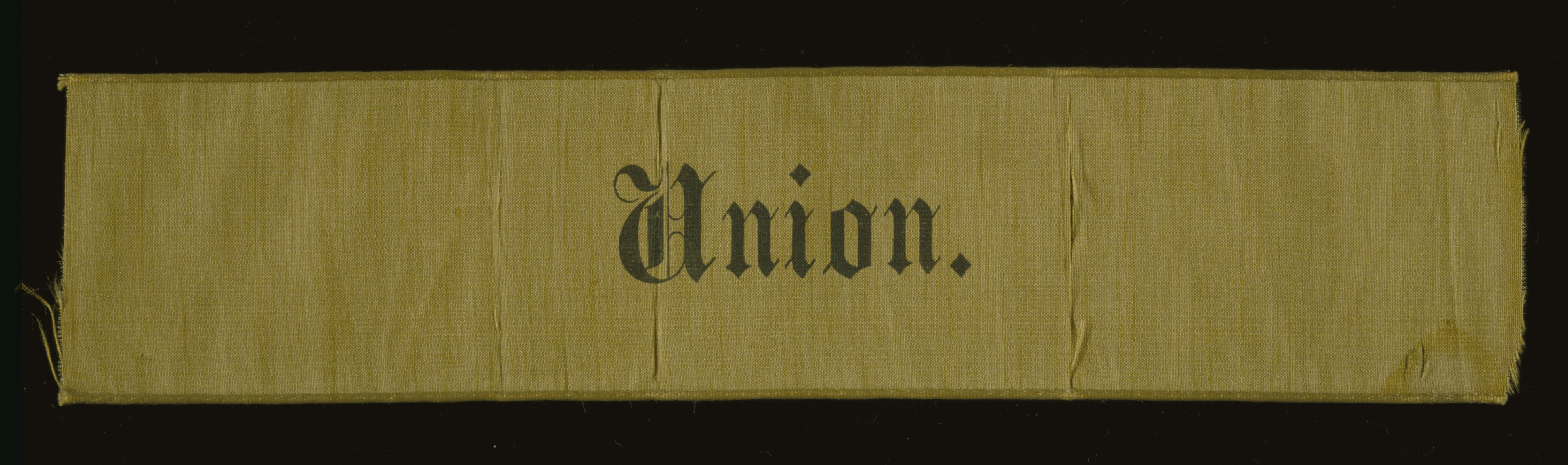 This ribbon was probably worn by Sol Smith when he served as Chairman at a meeting of Unconditional Unionists at the Mercantile Library in early 1861. The men at this meeting chose delegates to represent their party at the Missouri State Convention in 1861, the convention which elected a provisional government. Sol. Smith also attended the convention as a delegate. Title: "Union" Ribbon Worn by Supporters Dedicated to Keeping Missouri in the Union During the Civil War